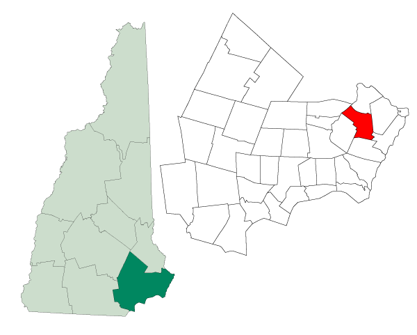 Map of a municipality in Rockingham County, New Hampshire